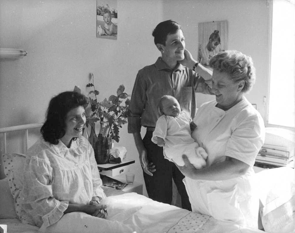 A midwife showing off the baby to the parents.